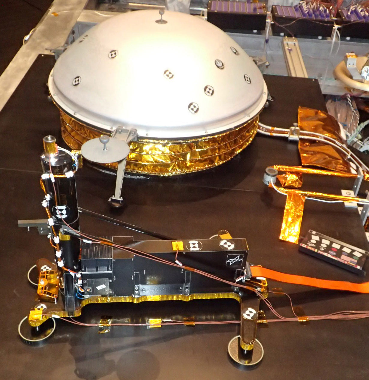 InSight Spacecraft : HP3 (foreground) and domed Wind and Thermal Shield (covering SEIS) in preparation for thermal vacuum testing